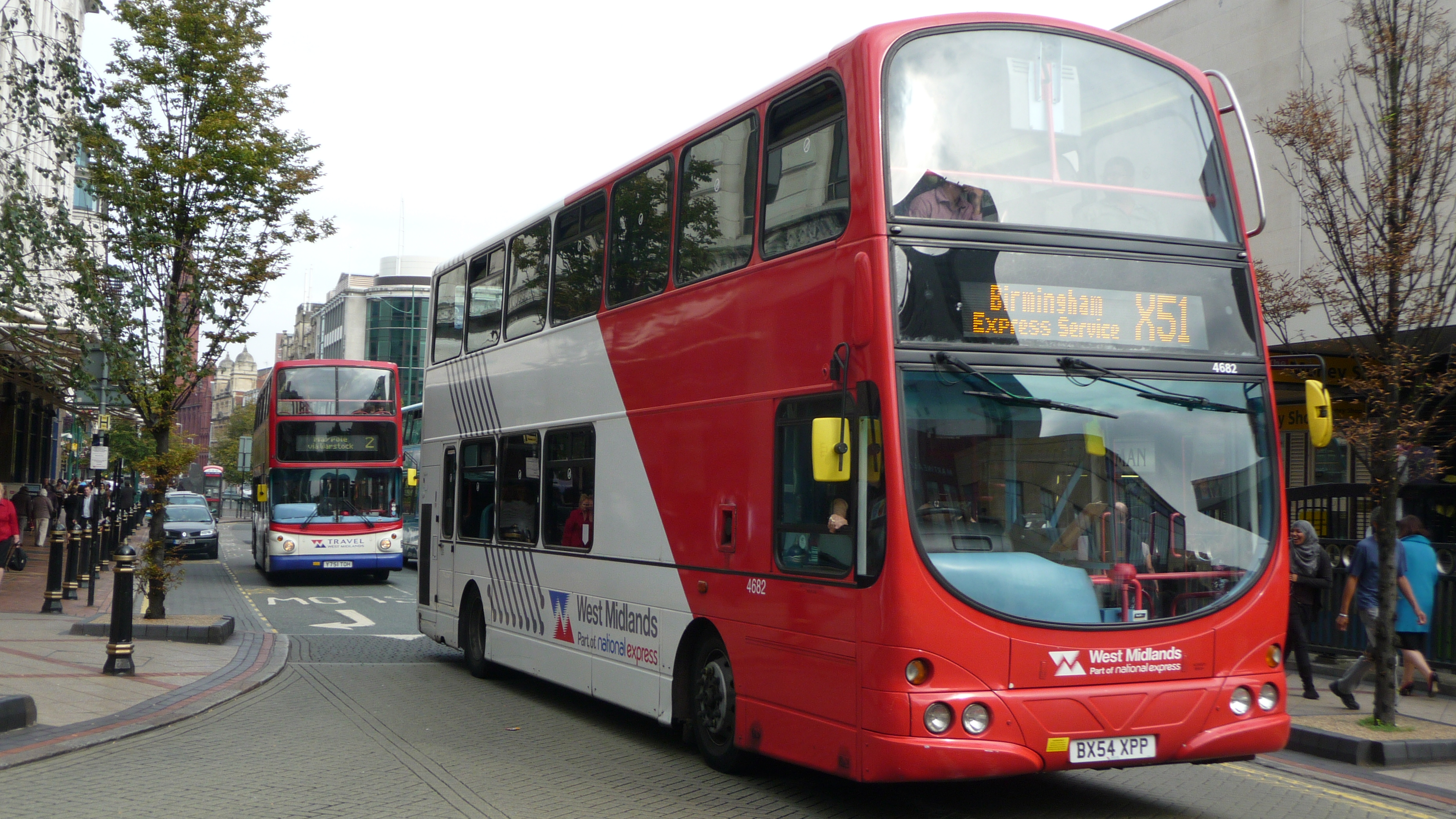 National Express West Midlands 4682 (BX54 XPP), a Volvo B7TL/Wright Eclipse Gemini, in Corporation Street, Birmingham city centre, on route X51.